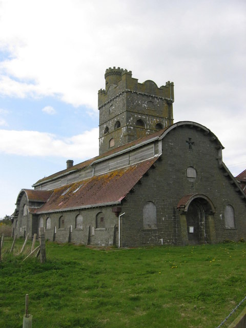 Coo Palace, Corseyard allegedly an early C20th dairy; architect unknown.